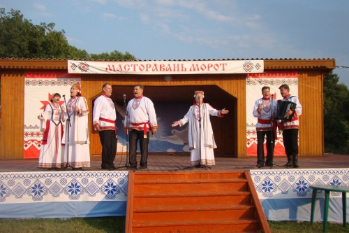 Mastoravanj morot in 2016